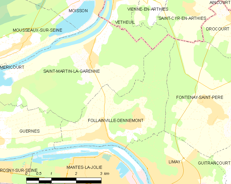 Map of French municipality Follainville-Dennemont